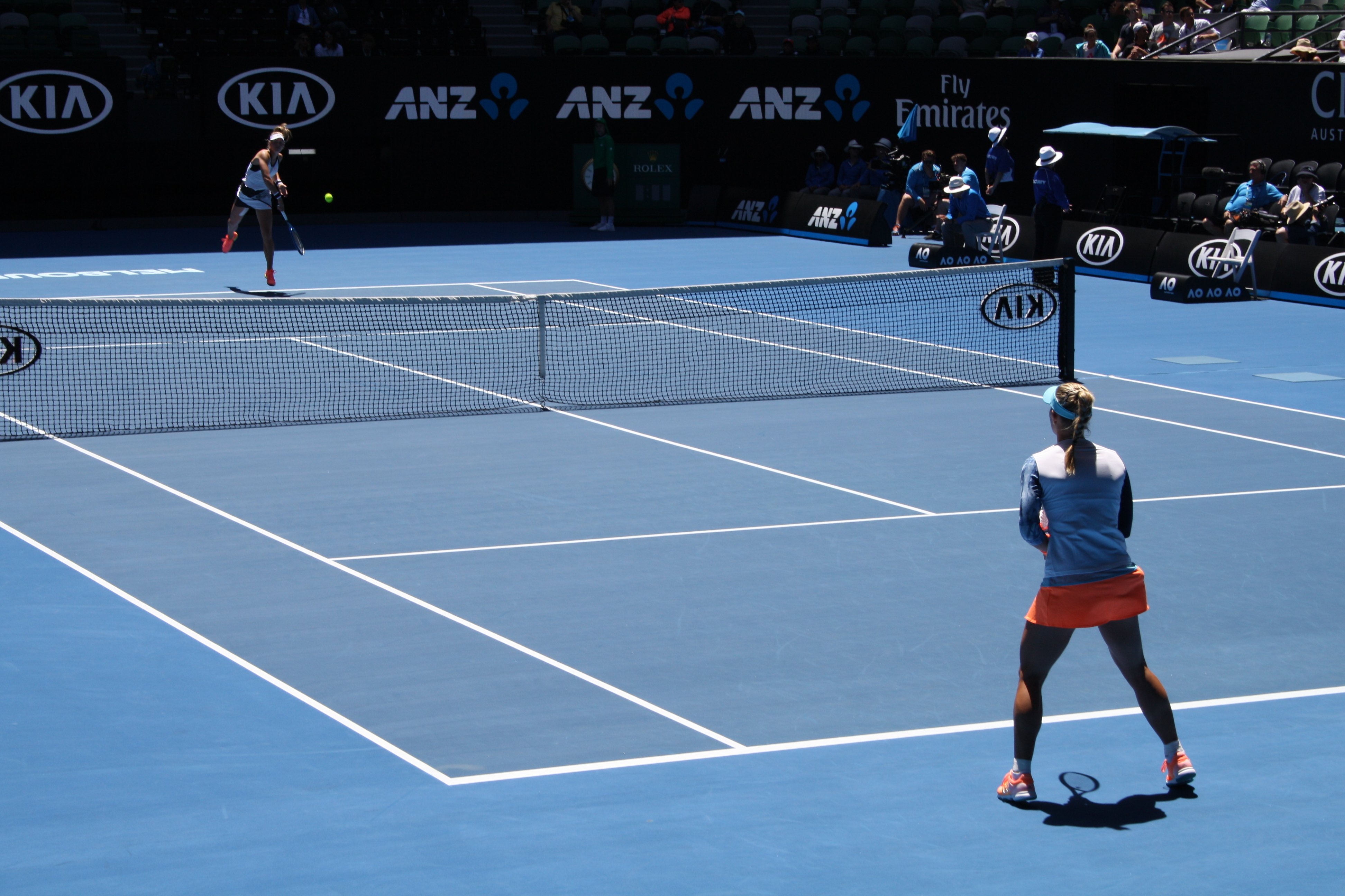 Angelique Kerber and Carina Witthöft, January 2017